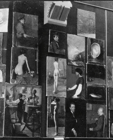 These are Leopold Seyffert's paintings from William Merrit Chase's class work at the Pennsylvania Academy ca. 1909